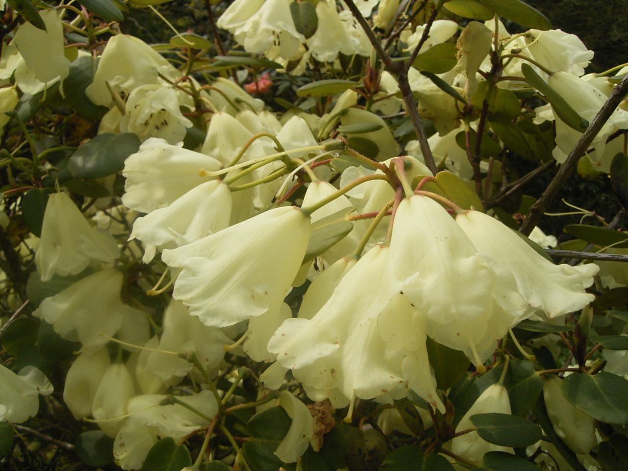 This photo shows the flowers of Rhododendron 'Moonstone'.